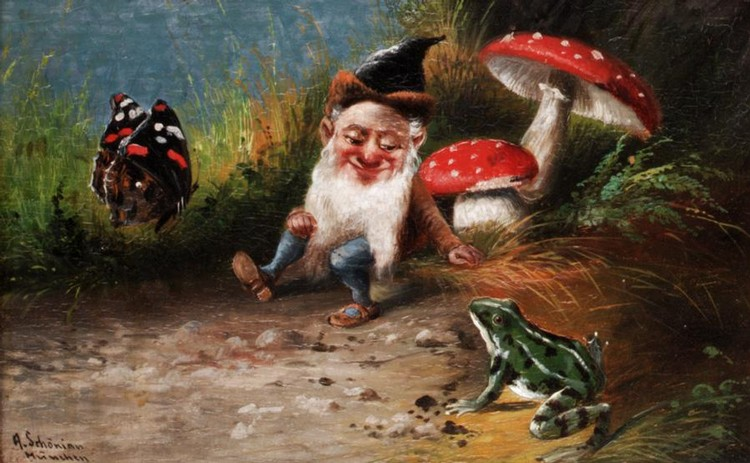 Gnome and Frog